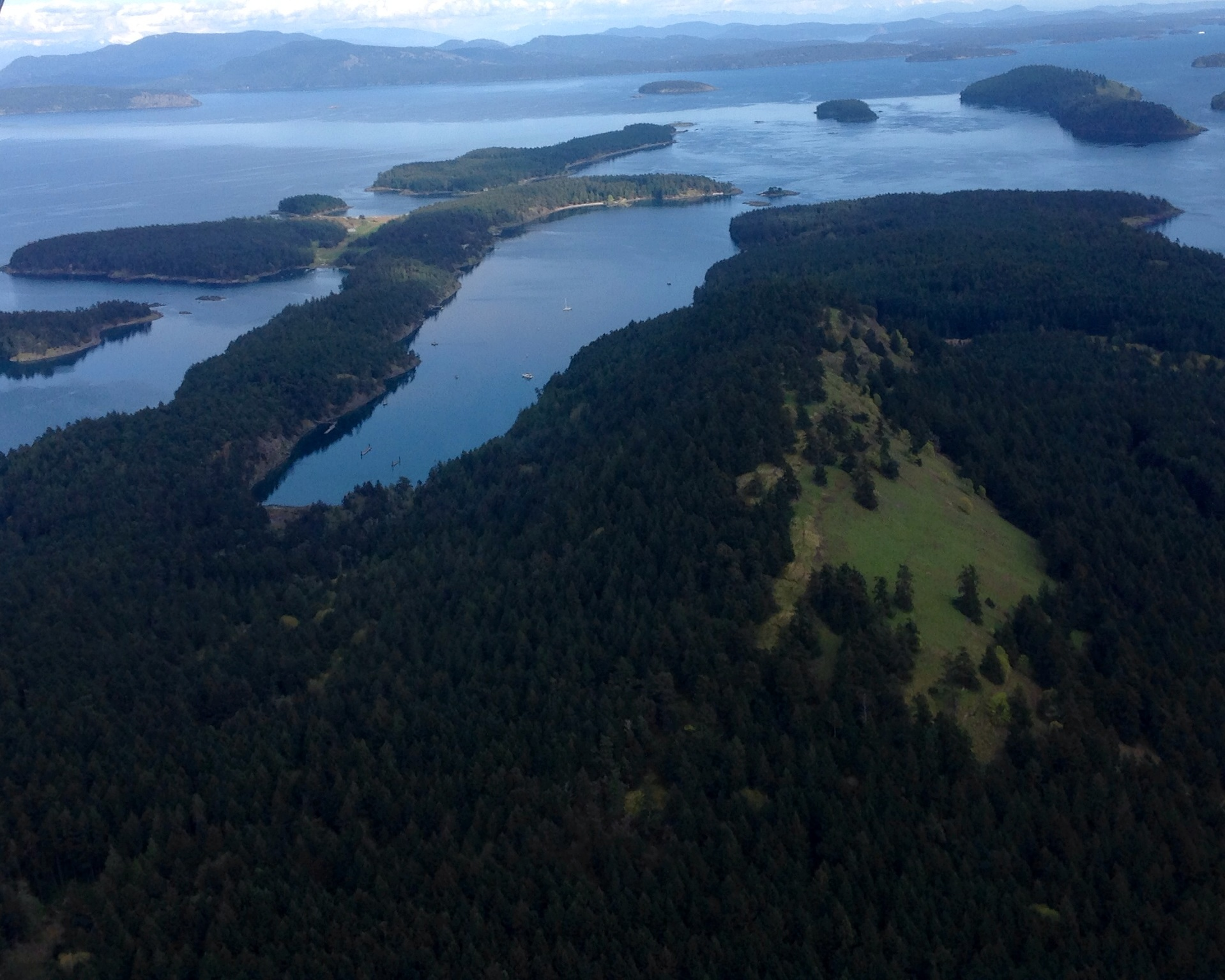 East-facing aerial view of Reid Harbour on Stuart Island, Washington in the Strait of Georgia.